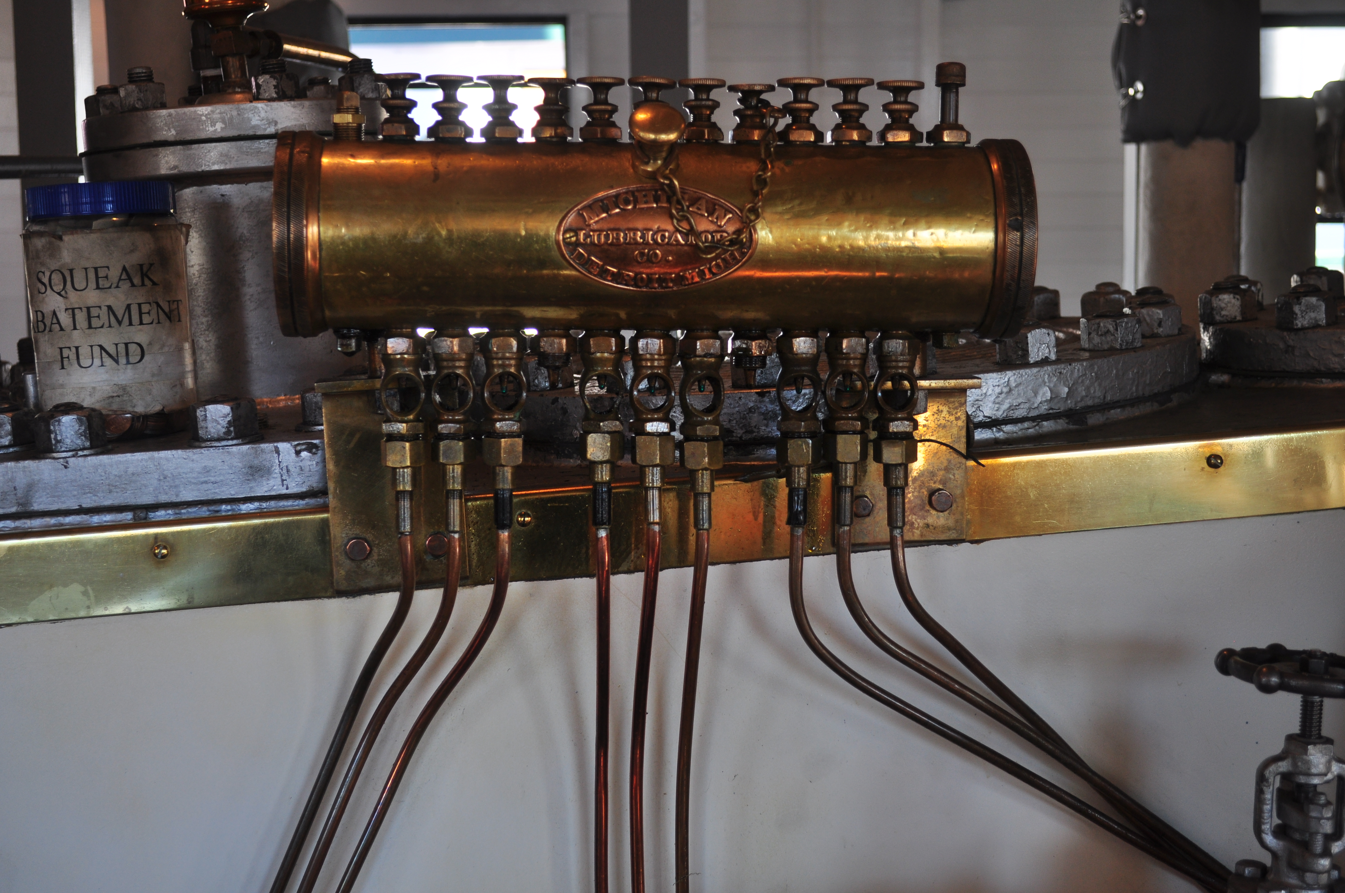 Mechanical lubricator of the steam engine of the Virginia V, docked at the Historic Ships Wharf at South Lake Union, Seattle, Washington, U.S.